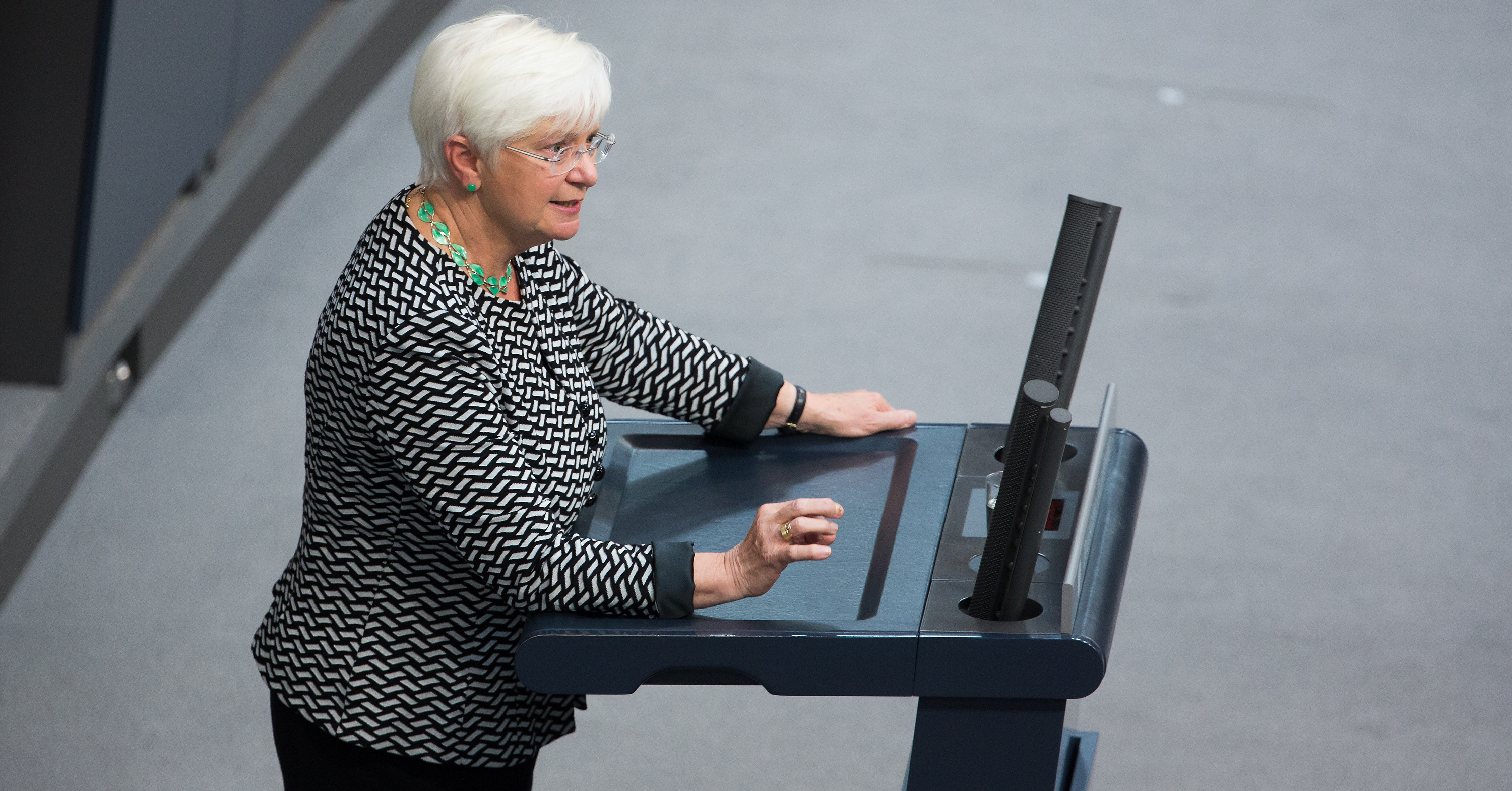 Picture taken during Wikipedia Bundestag project 2014. Gerda Hasselfeldt.